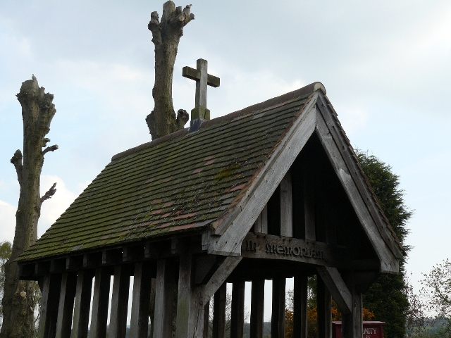 Mapperley village Lych Gate